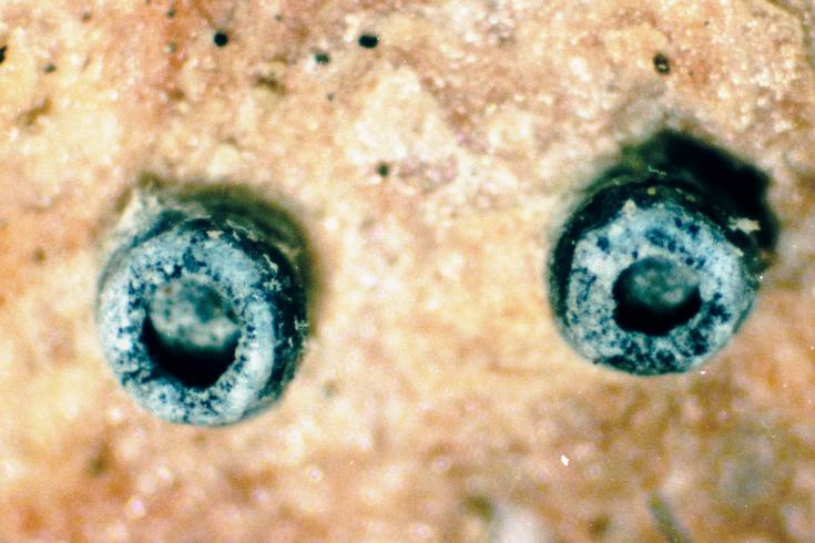 Conotrema urceolatum (Ach.) Tuck., 1848 (photograph of herbarium specimen through a dissecting microscope, x40) Growing on bark of Sugar Maple in moist woods on Division Road, ca. 1 mile W of State Road, Emmet County, Michigan, USA; collected and identified by Richard E. Riefner (No. 81-661, 7 Aug 1981); specimen is now in the Lichen Herbarium of the New York Botanical Garden.